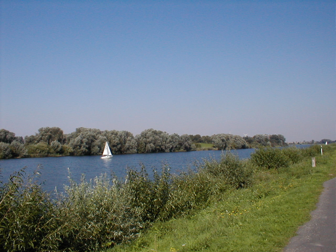 Salzgitter Lake in the year 2005